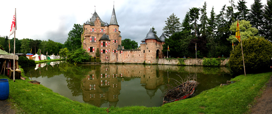 Panoramic view of Satzvey Castle